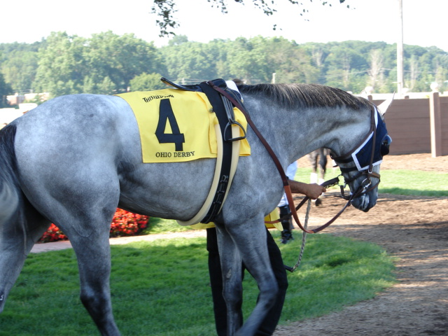 I took this picture before the 2006 running of the Ohio Derby at Thistledown using a Sony DSC-H1 digital camera, automatic setting.